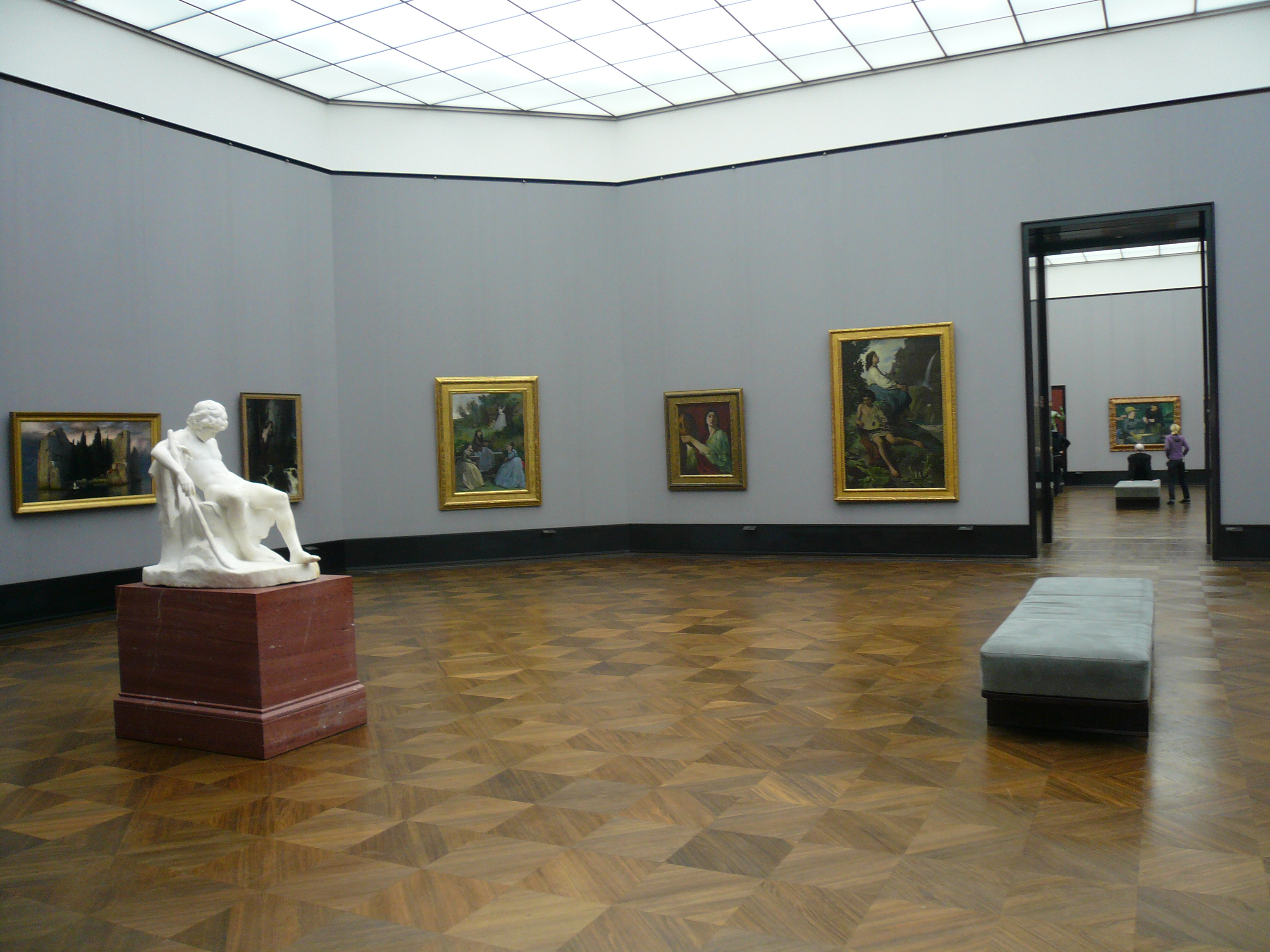 Interior view of the Alte Nationalgalerie, Berlin, Germany